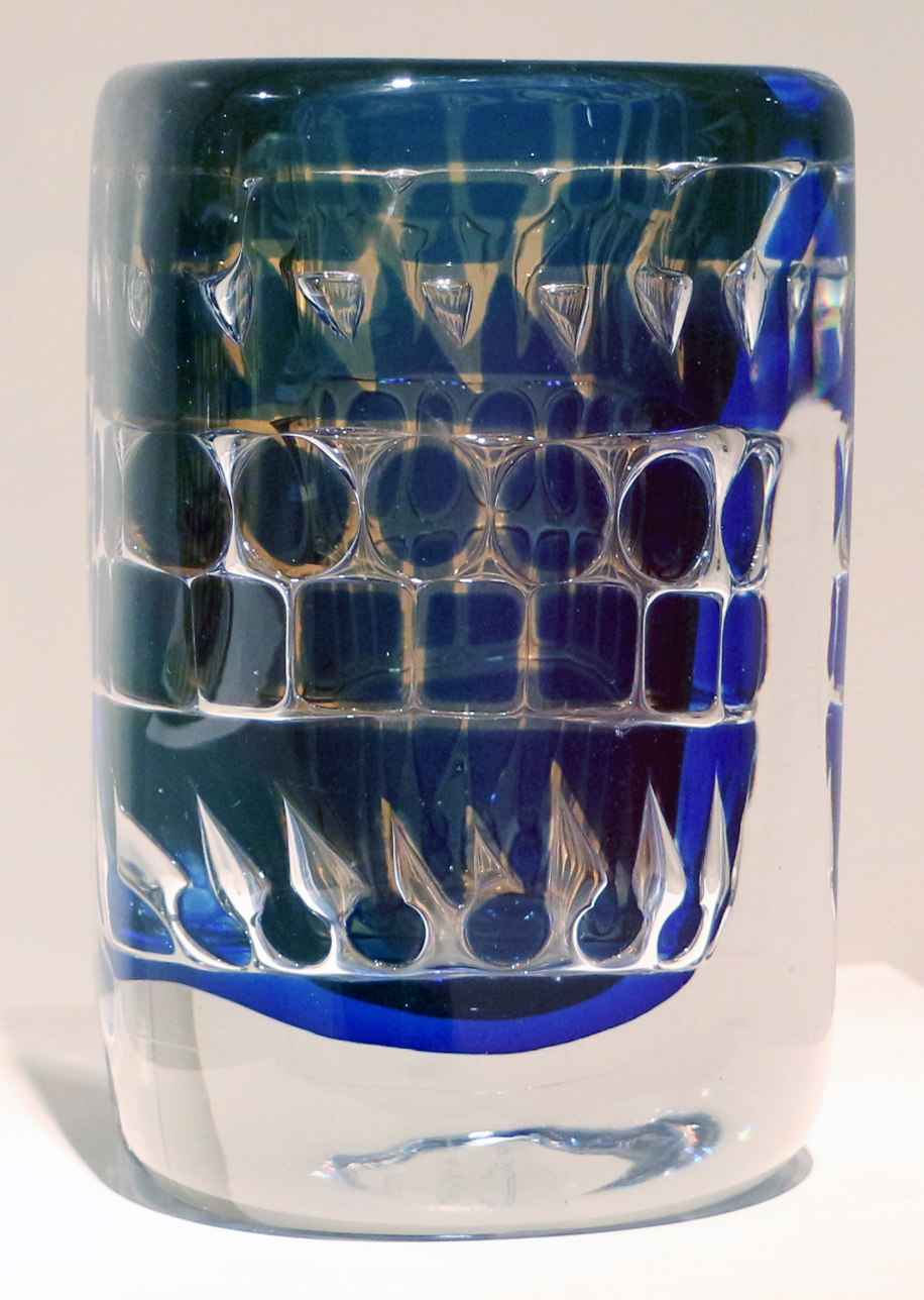 Glassware in the Indianapolis Museum of Art